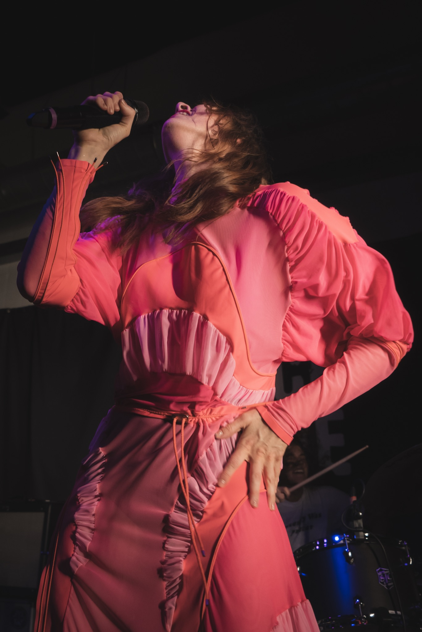 Kate Nash at Rough Trade